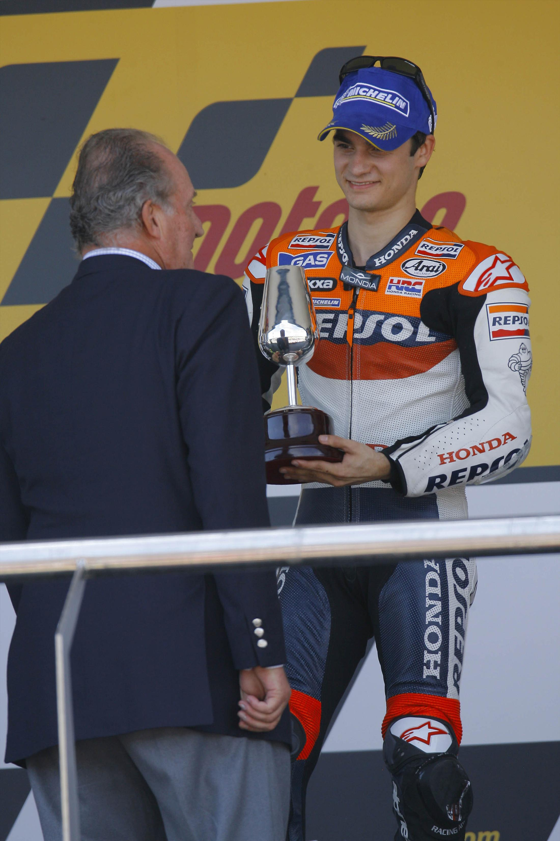 Dani Pedrosa, being given his first place trophy on the podium after winning the 2008 Spanish Grand Prix.